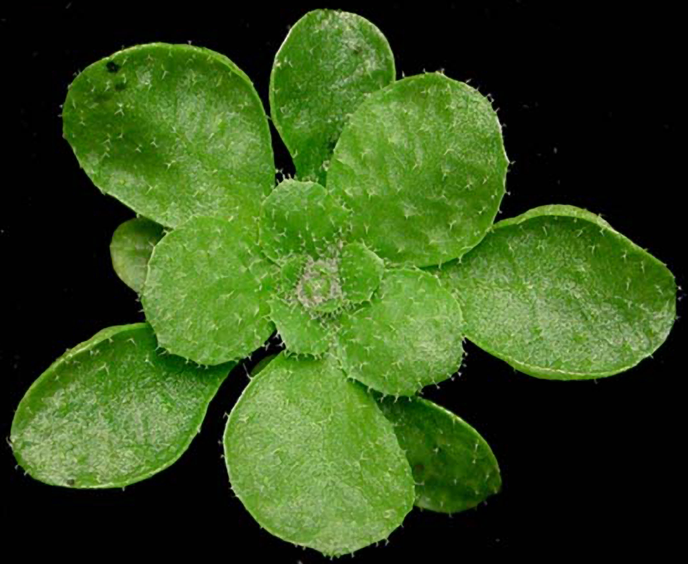 Arabidopsis thaliana at the rosette stage.